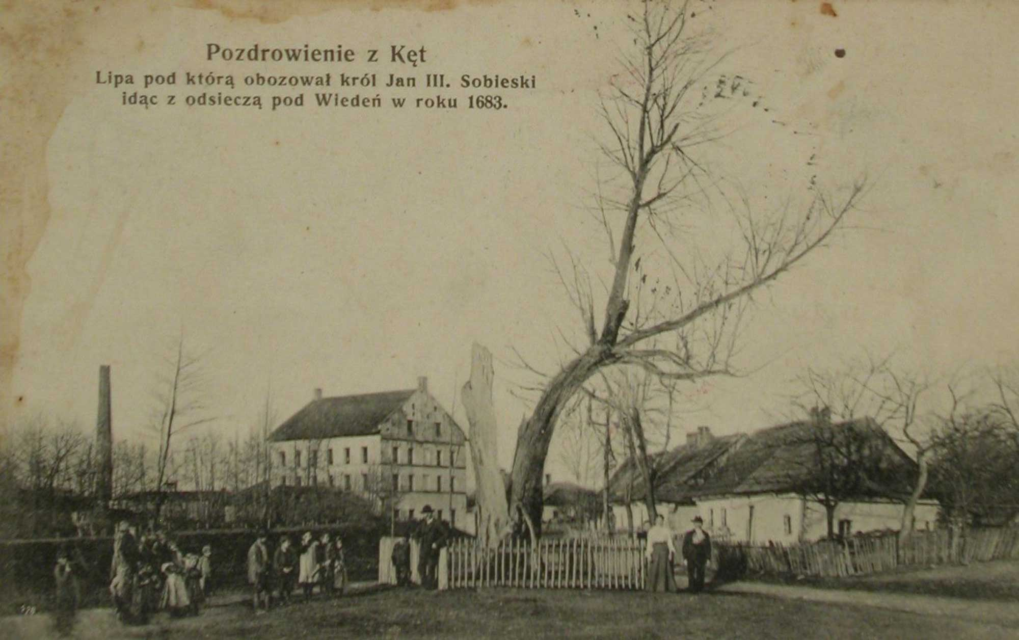 Postcard (c. 1907), place where king Jan Sobieski had his miltary camp on way to Wienna in 1683, Kęty (Poland)